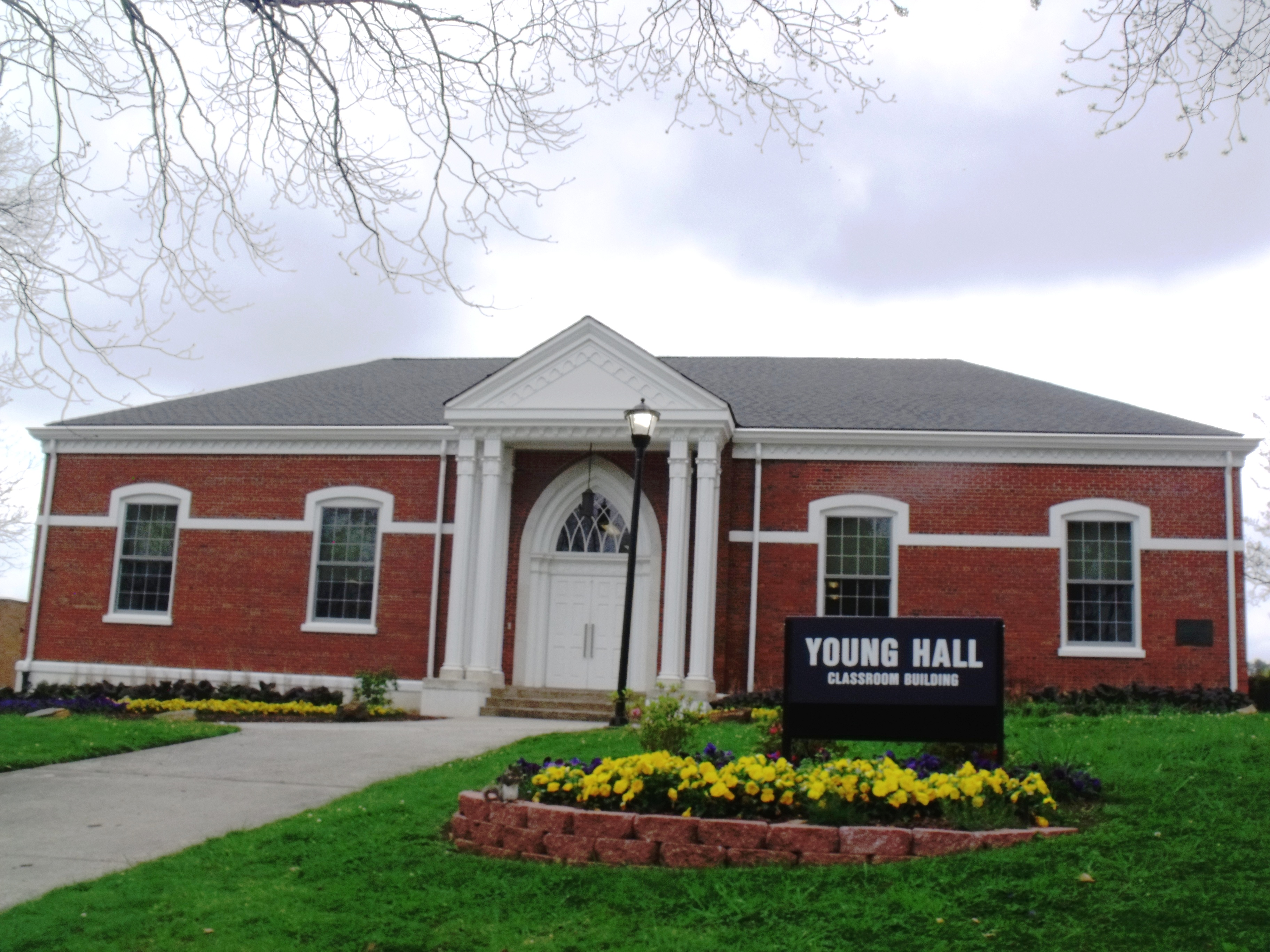 Young Hall is a classroom building at the University of North Georgia. It was renovated from the school's old library in 1974. [1]